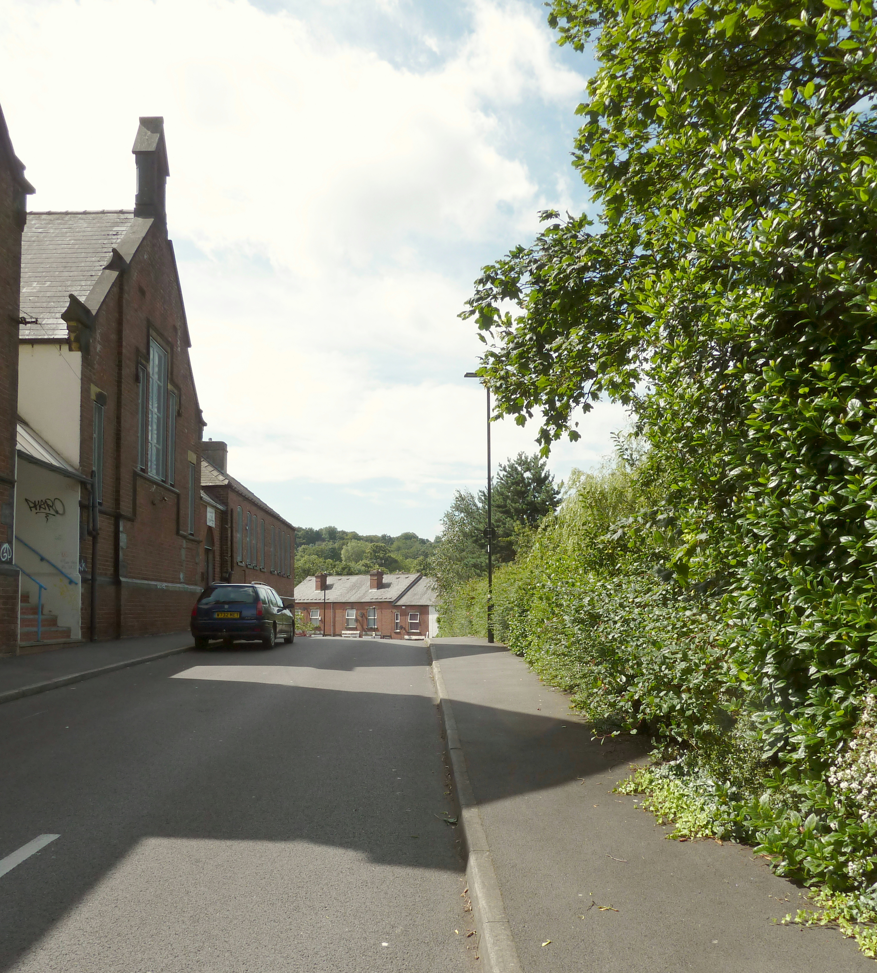 Plantation Road, Heeley, Sheffield, South Yorkshire, England. On the left is the side elevation of a former Wesleyan chapel, now a mosque. On the right is an area of trees and grass - the former site of Thirlwell Terrace, where the female poisoner Felicia Dorothea Kate Dover lived in the 19th century.